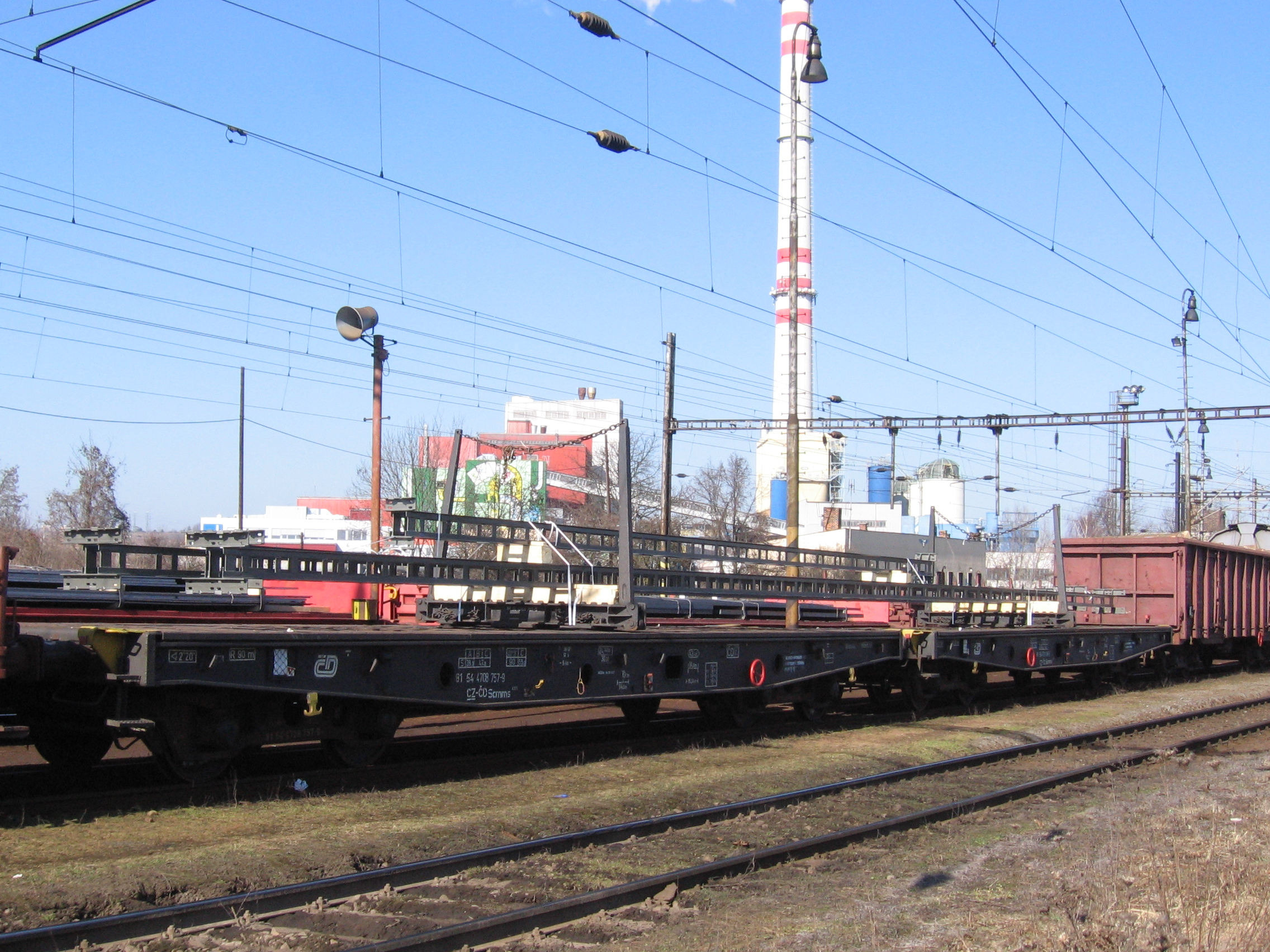 ČD Cargo Class Scmms (ČSD Class Oa) 81 54 4 708 757-9 + 81 54 4 709 080-5 with the load of the cross beams of catenary gates at Plzeň shunting yard